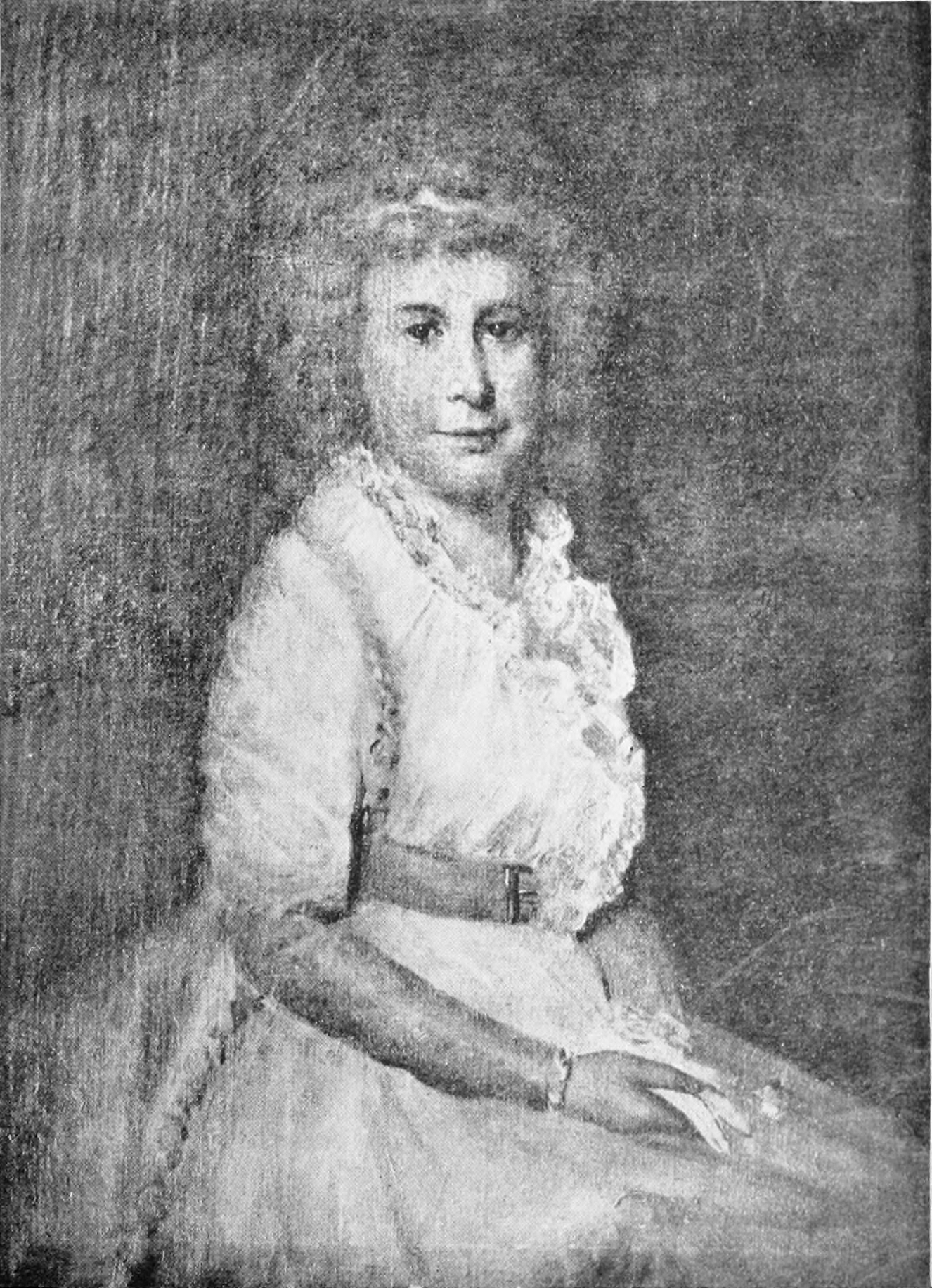 Margarita "Peggy" Schuyler was the daughter of General Philip Schuyler and wife of Stephen Van Rensselaer III, a wealthy landowner in upstate New York.